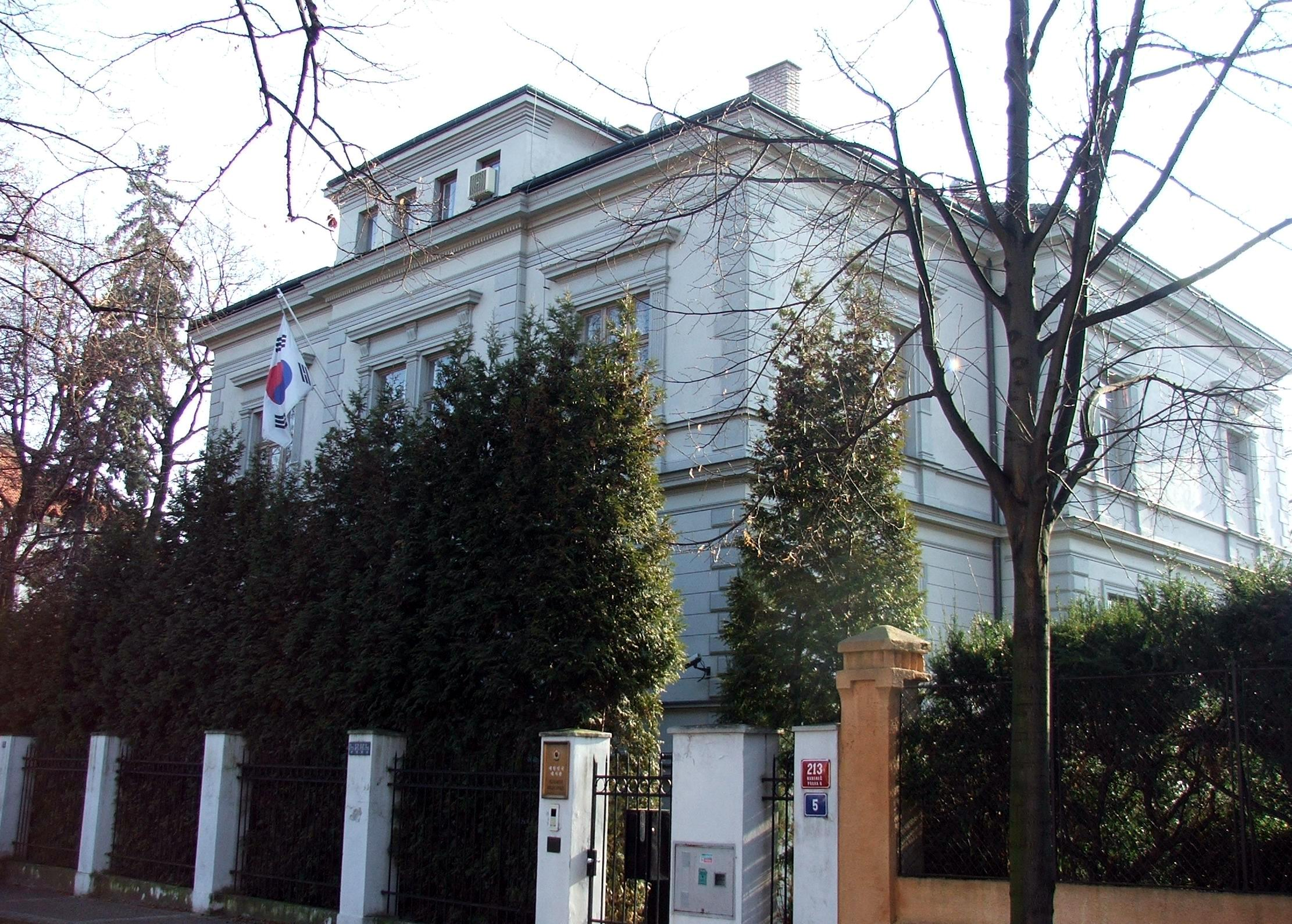 Embassy of Republic of Korea in Prague - Bubeneč, Slavíčkova street Czechia